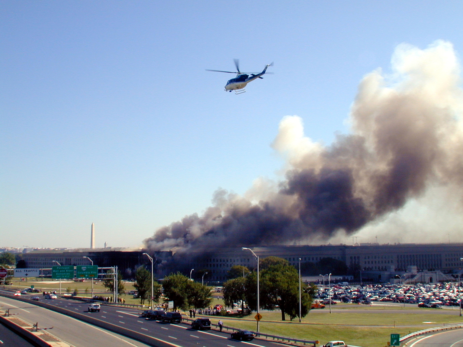 A helicopter flies over the area as smoke pours from the southwest corner of the Pentagon Building located in Washington, District of Columbia (DC), minutes after a hijacked airliner crashed into the southwest corner of the building, during the 9/11 terrorists attacks.